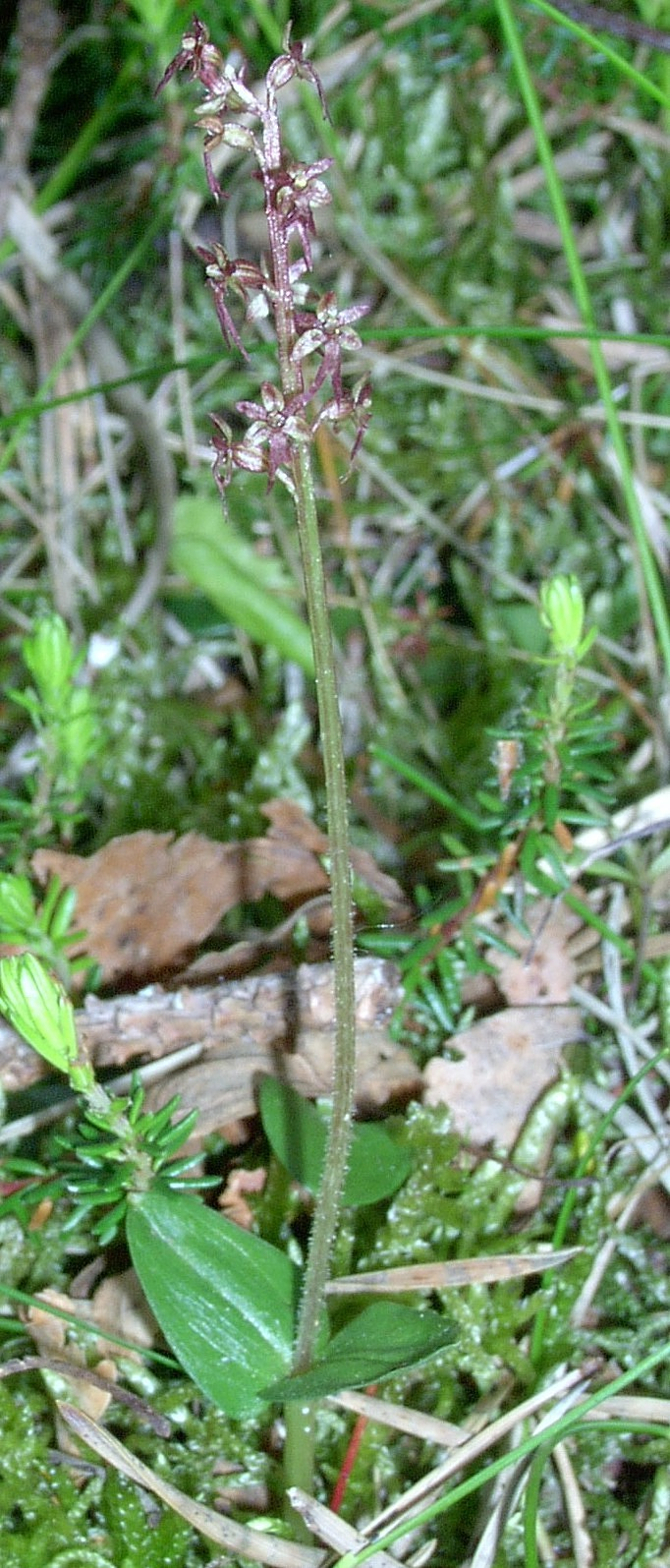 Listera cordata in teh Pine Firest on Baltic see. Grzybowo near Kolobrzeg. Poland